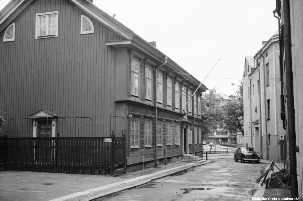 Elgerigården, a private house from the 1830ies in the center of Örebro, Sweden